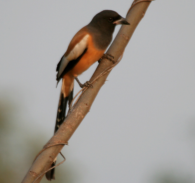 Juvenile Rufous Treepie Dendrocitta vagabunda in Kawal Wildlife Sanctuary, Andhra Pradesh, India.